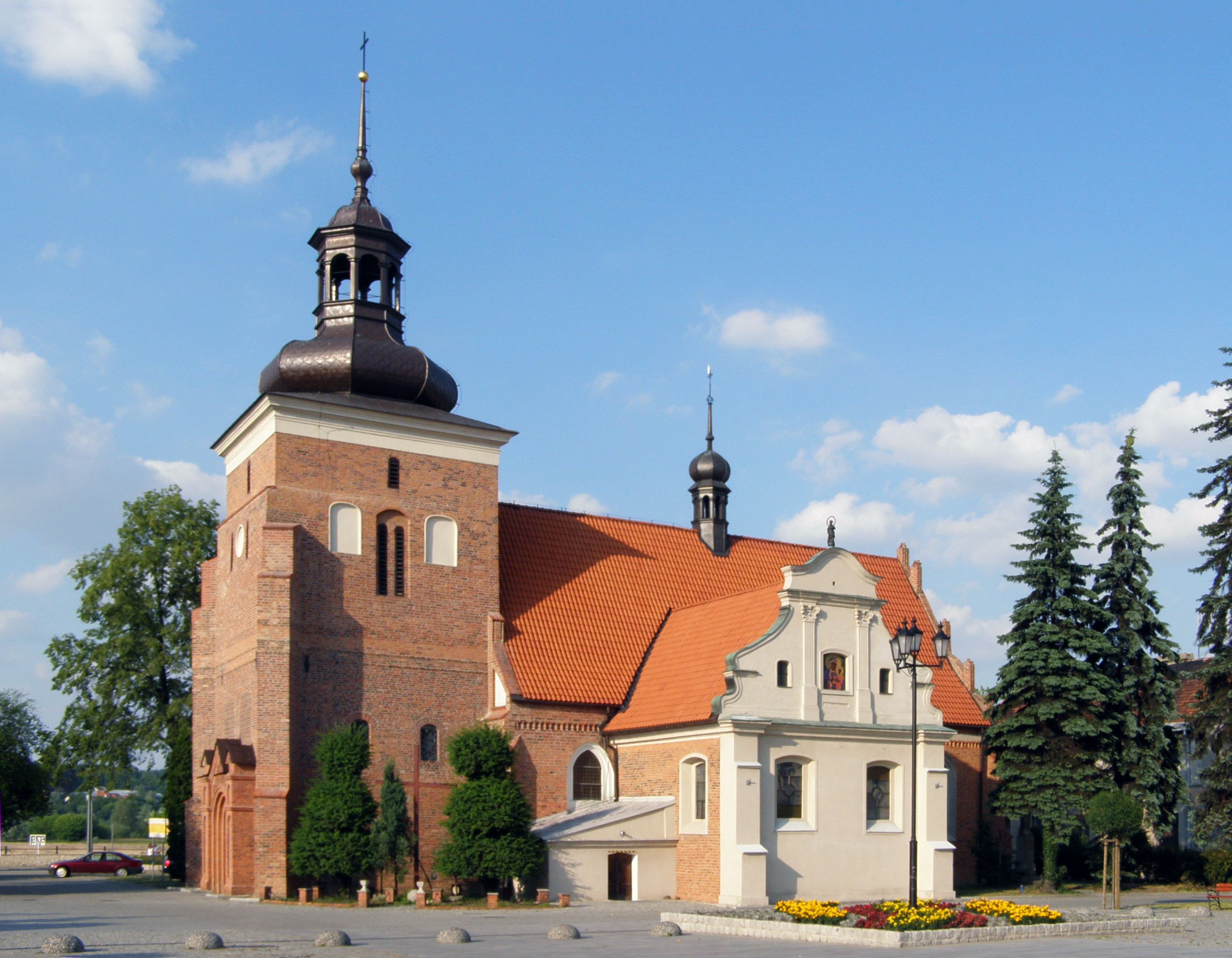 Saint John the Baptist church in Włocławek